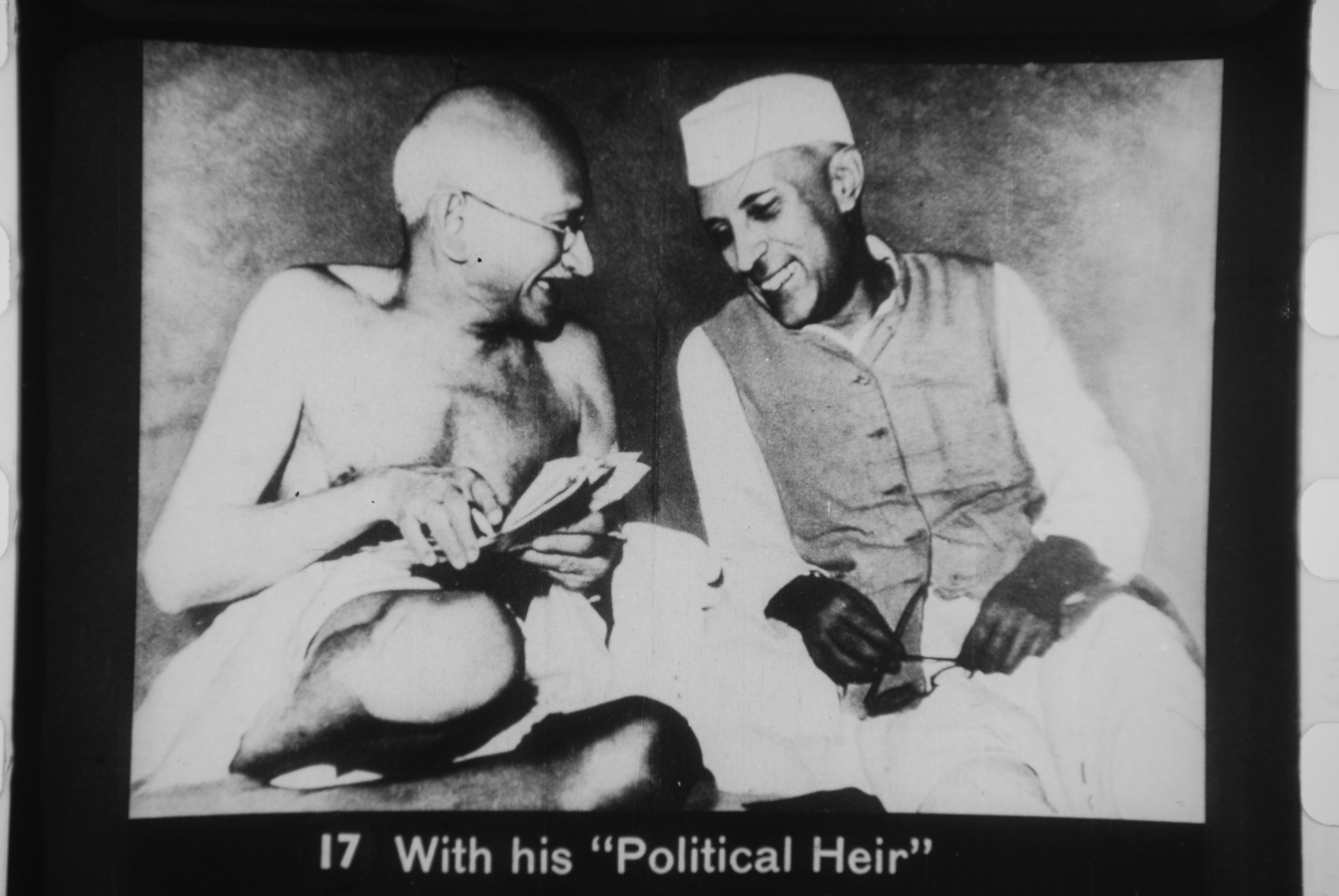 Gandhi and Nehru, during a meeting of the All India Congress, Mumbai, July 6, 1946 More information about this photograph: Sandy Colton, Camera Angles: AP photo of Gandhi and Nehru, January 4, 1980 John Hlavacek, United Press Invades India: Memoirs of a Foreign Correspondent, 1944-1952, 2011, pp. 47-48 [1] [2]